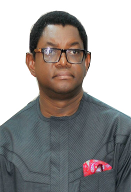 Portrait picture of Raymond Nkemdirim